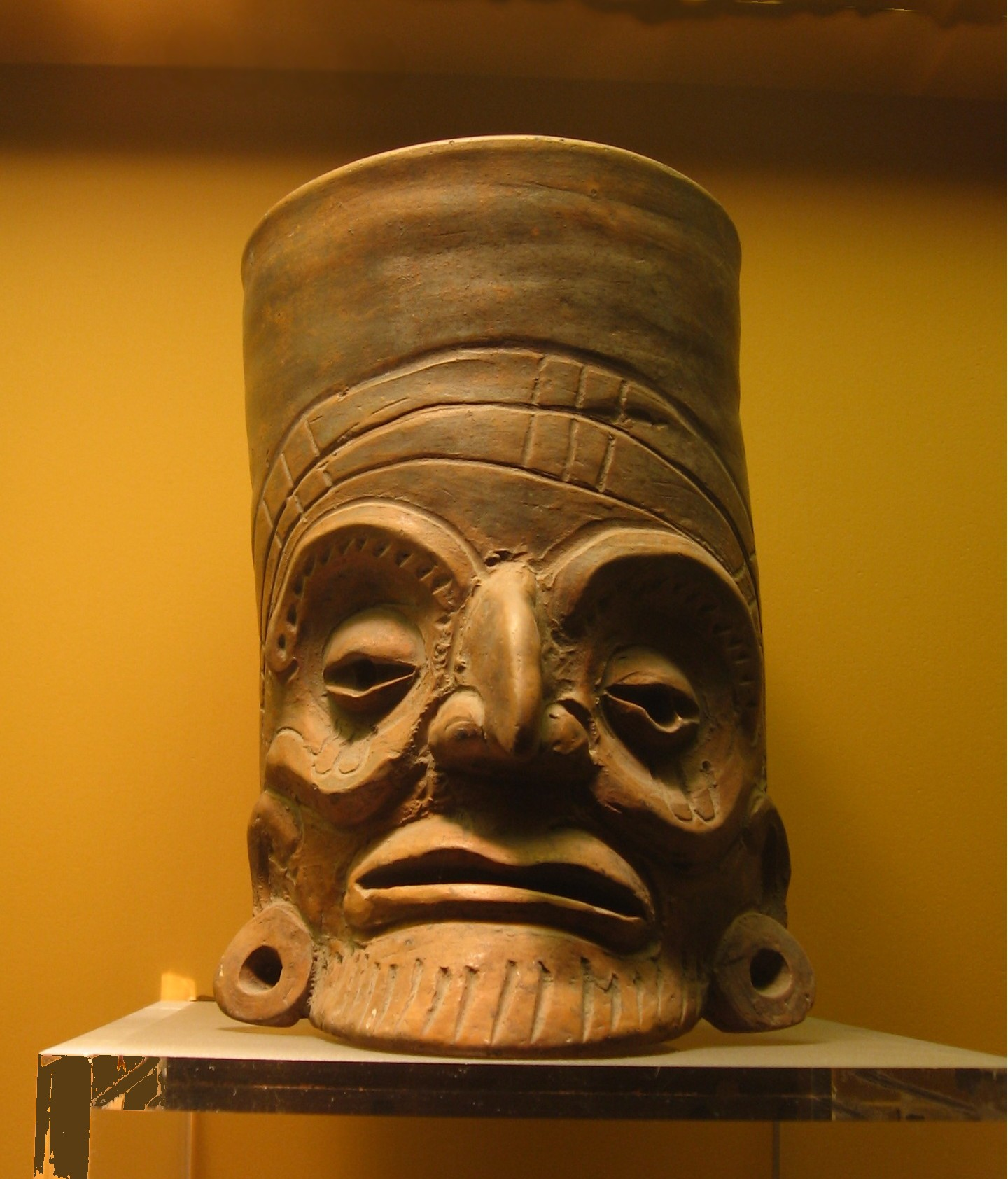 A rather expressive vessel, done in Toltec style. Photo by Madman